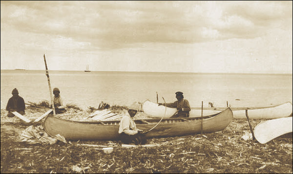 Innu making canoes near Sheshatshiu, ca. 1920